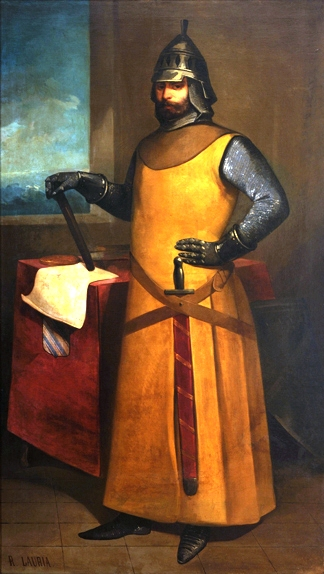 Imaginary portrait of the admiral Roger of Lauria (1245-1305).